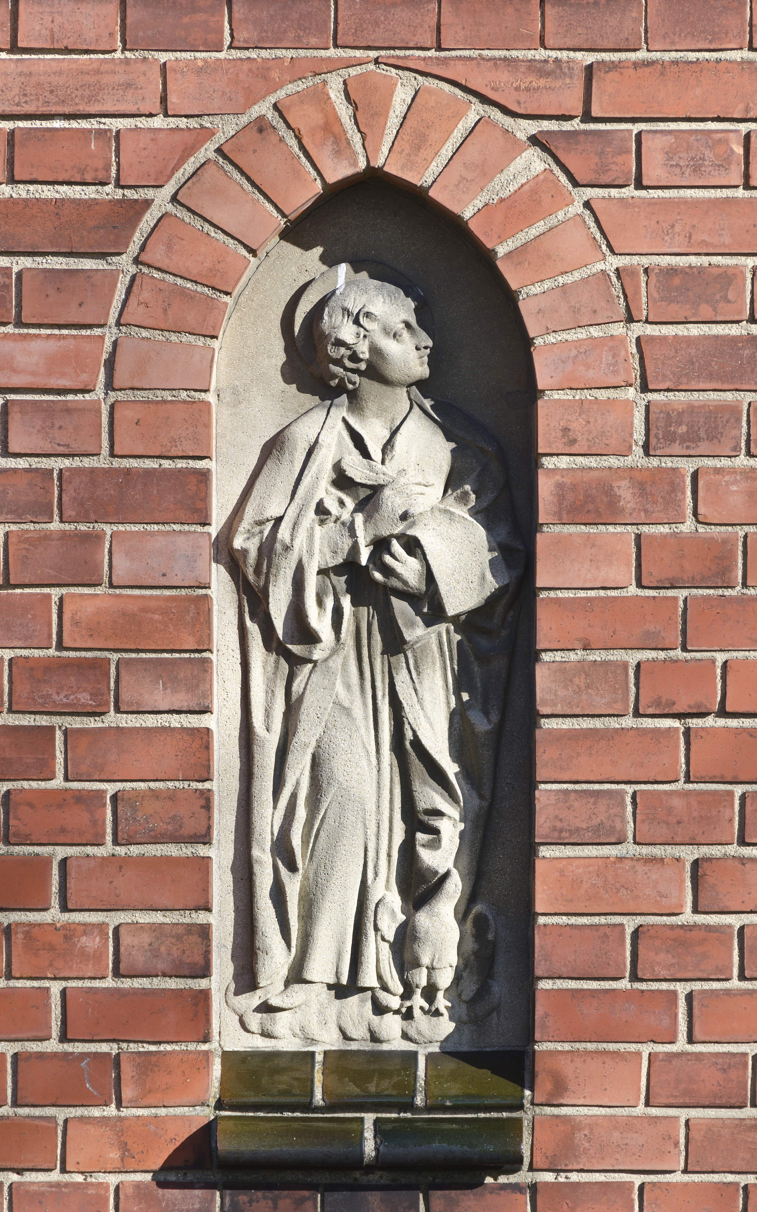 Saint John the Baptist church in Jaszkowa Dolna, relief of Saint John the Evangelist